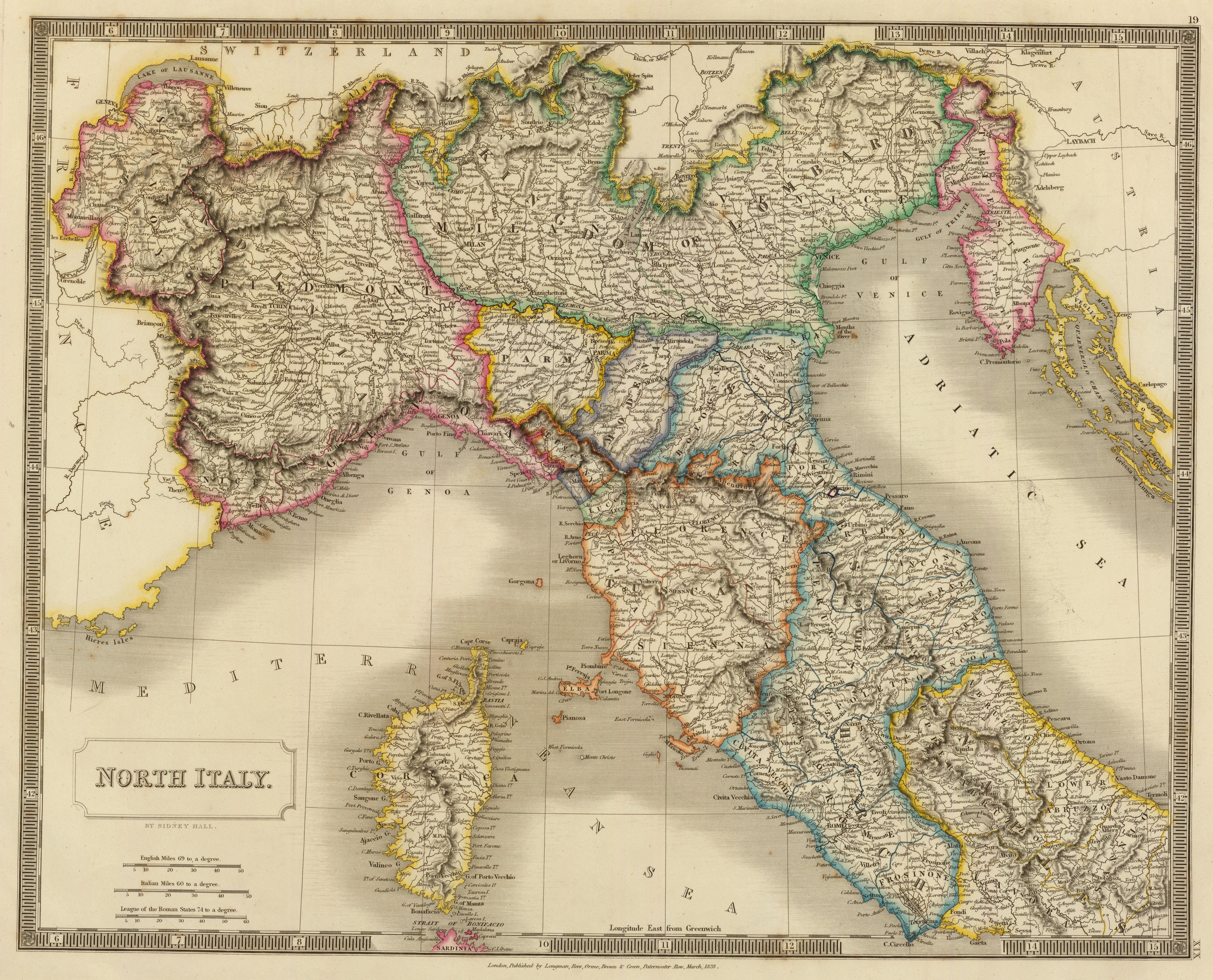 North Italy, 1828 (Hall).